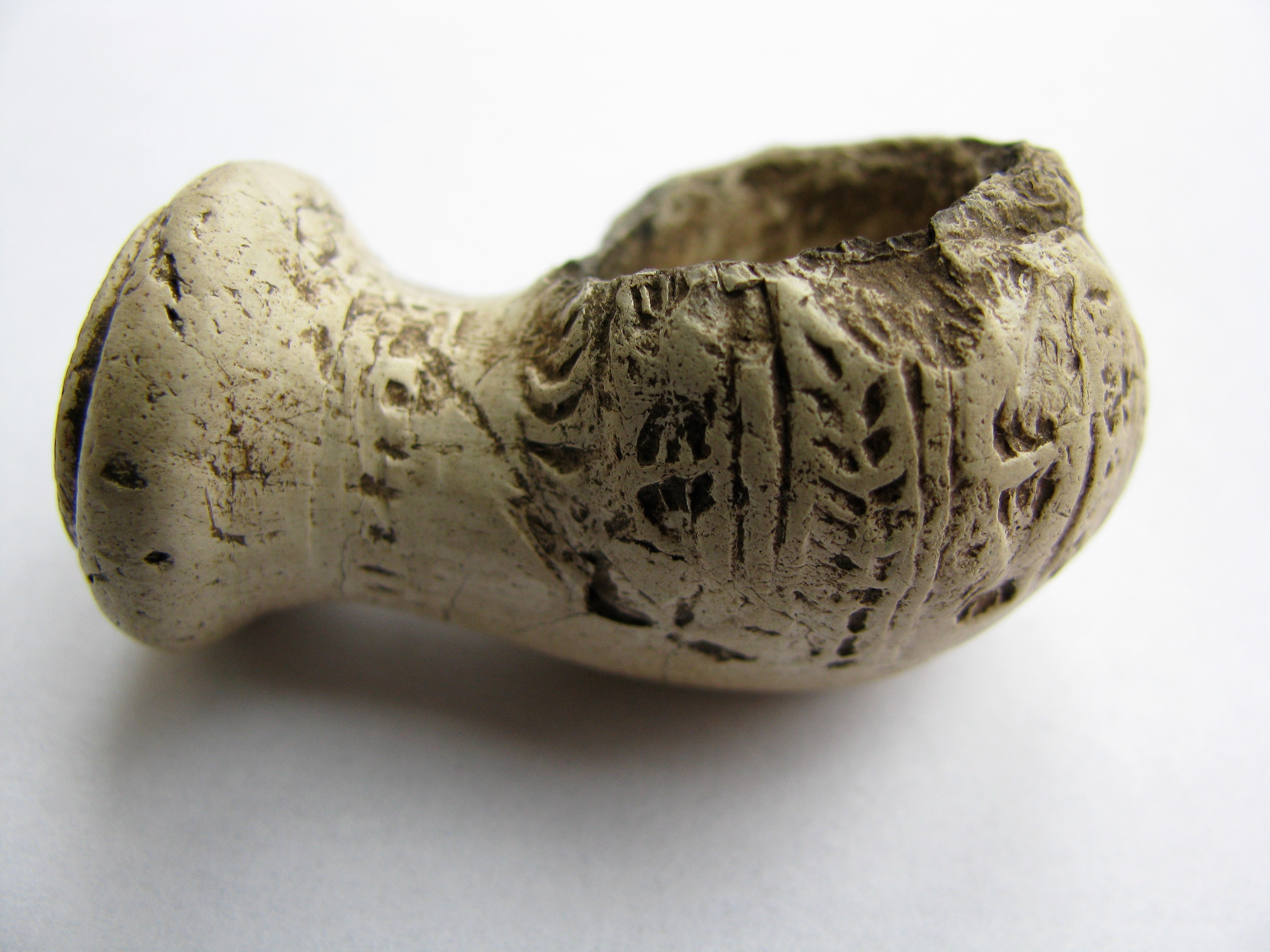 Cossacks pipe, Ukraina, village Horbakiv